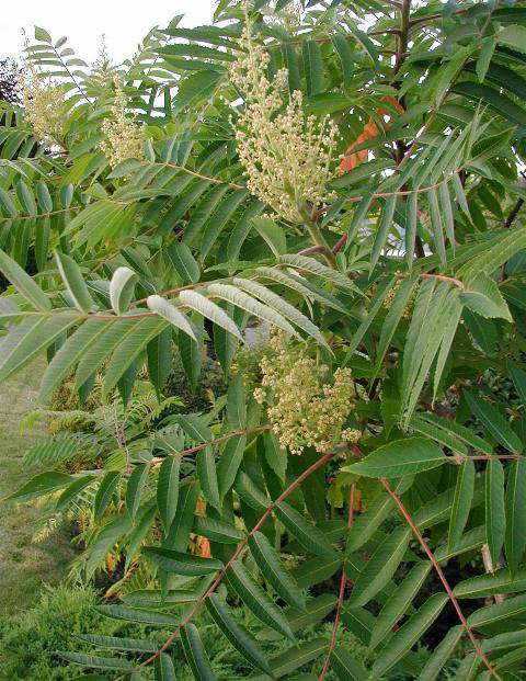 Rhus typhina